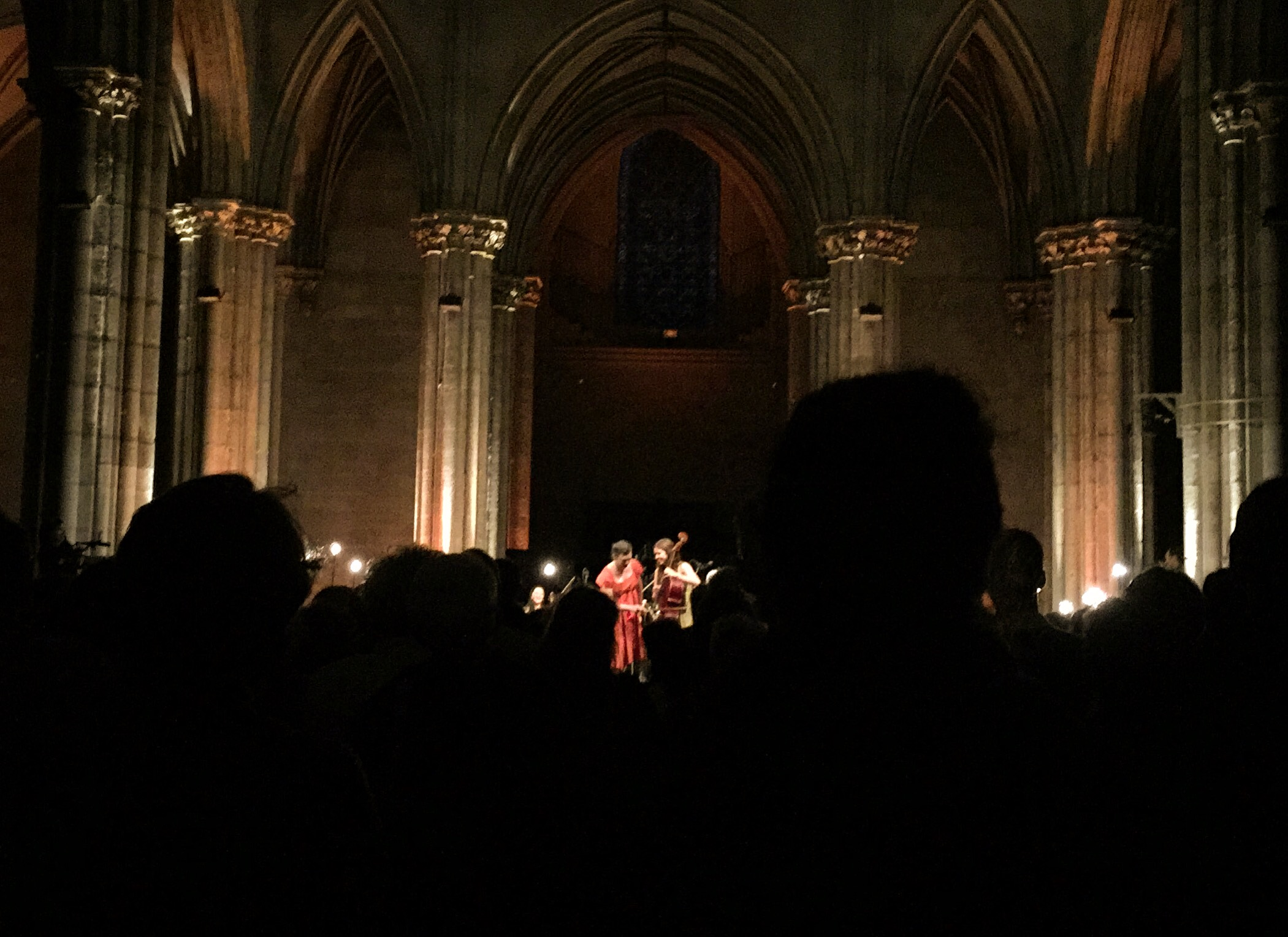 The duo Birds on a Wire (Rosemary Standley and Dom La Nena) perform in the Basilica of Saint-Denis (France) on June, 20th, 2016.